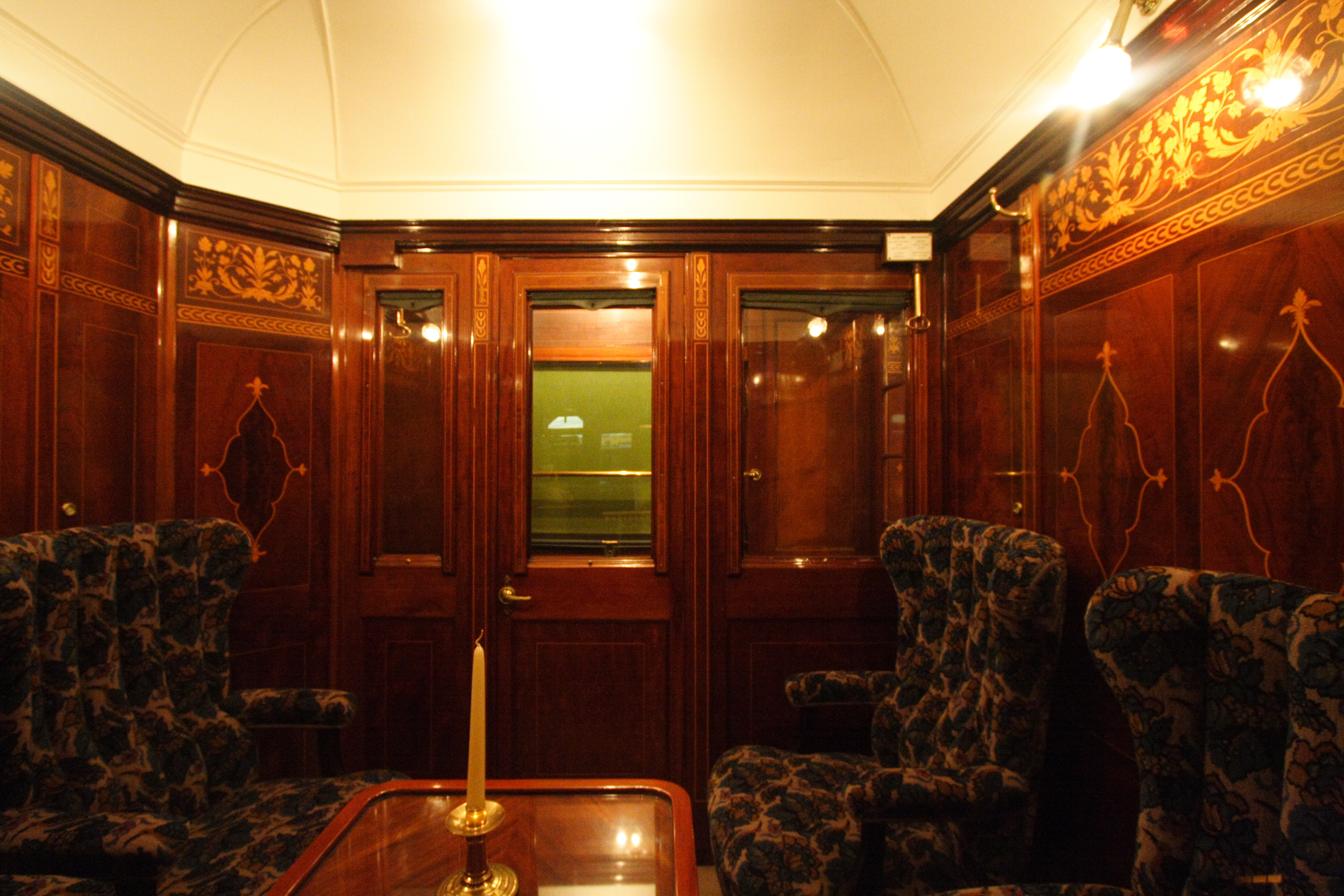 Voiture pullman salon 1ere classe 4018 by CIWL(Mulhouse, France)